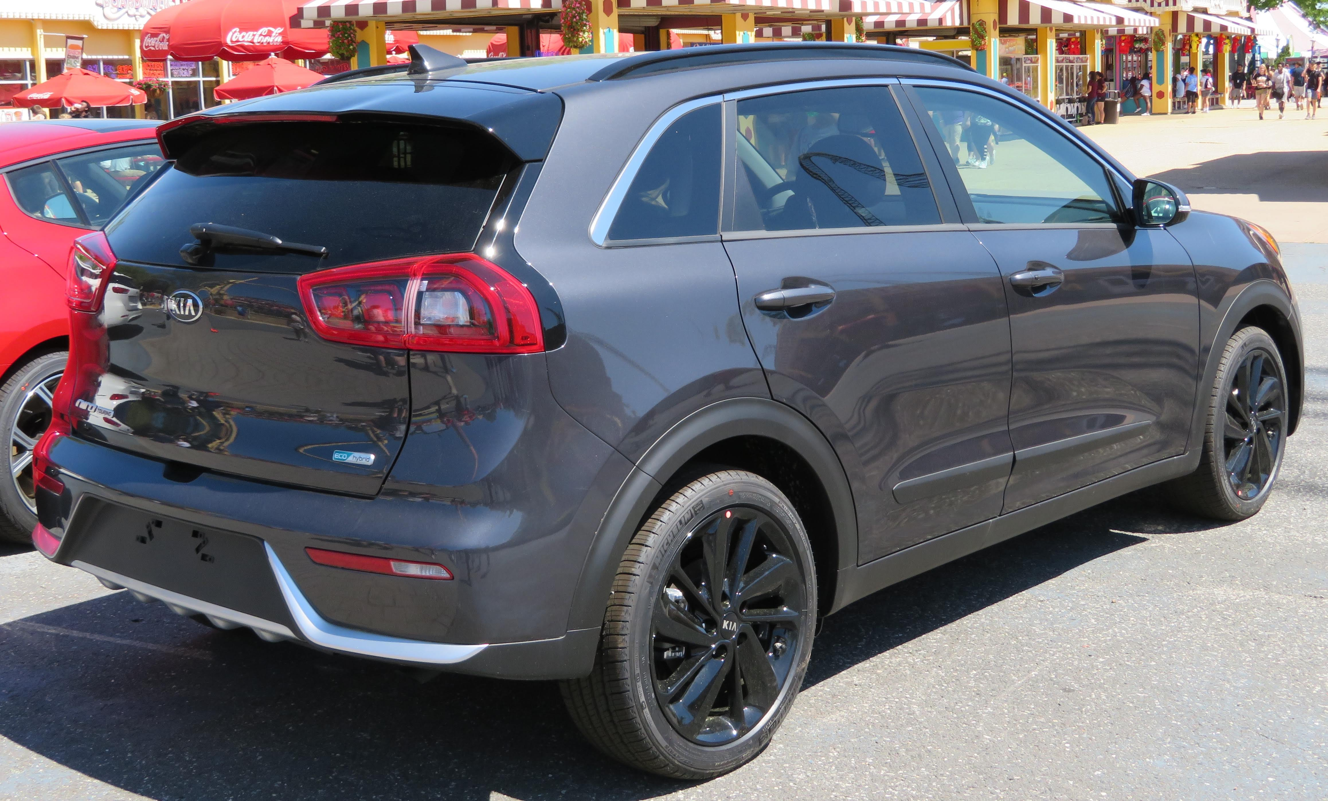 Photographed in Six Flags Amusement Park(Sponsored), Jackson, New Jersey.